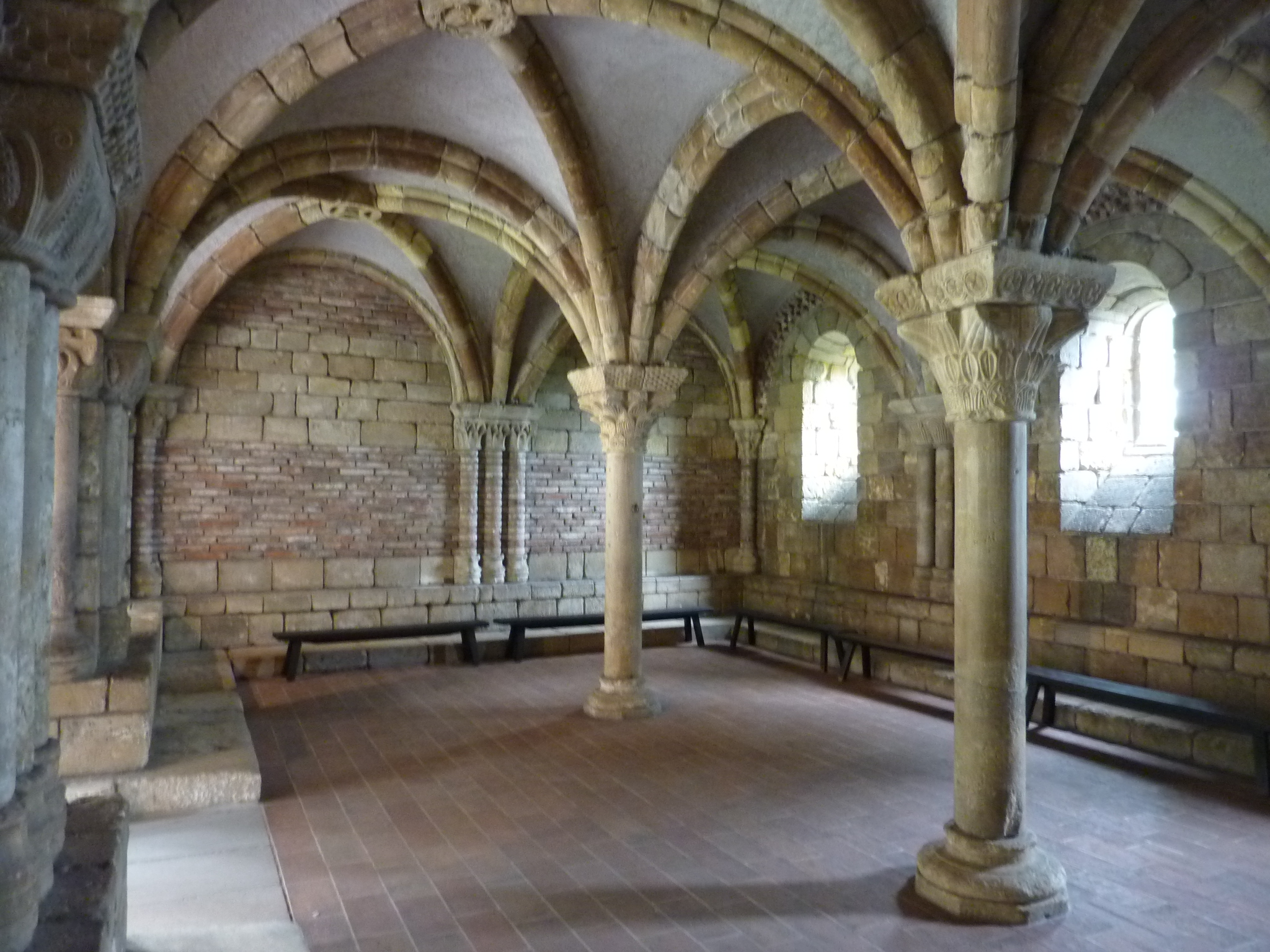 Pontaut Chapter House, The Cloisters, New York